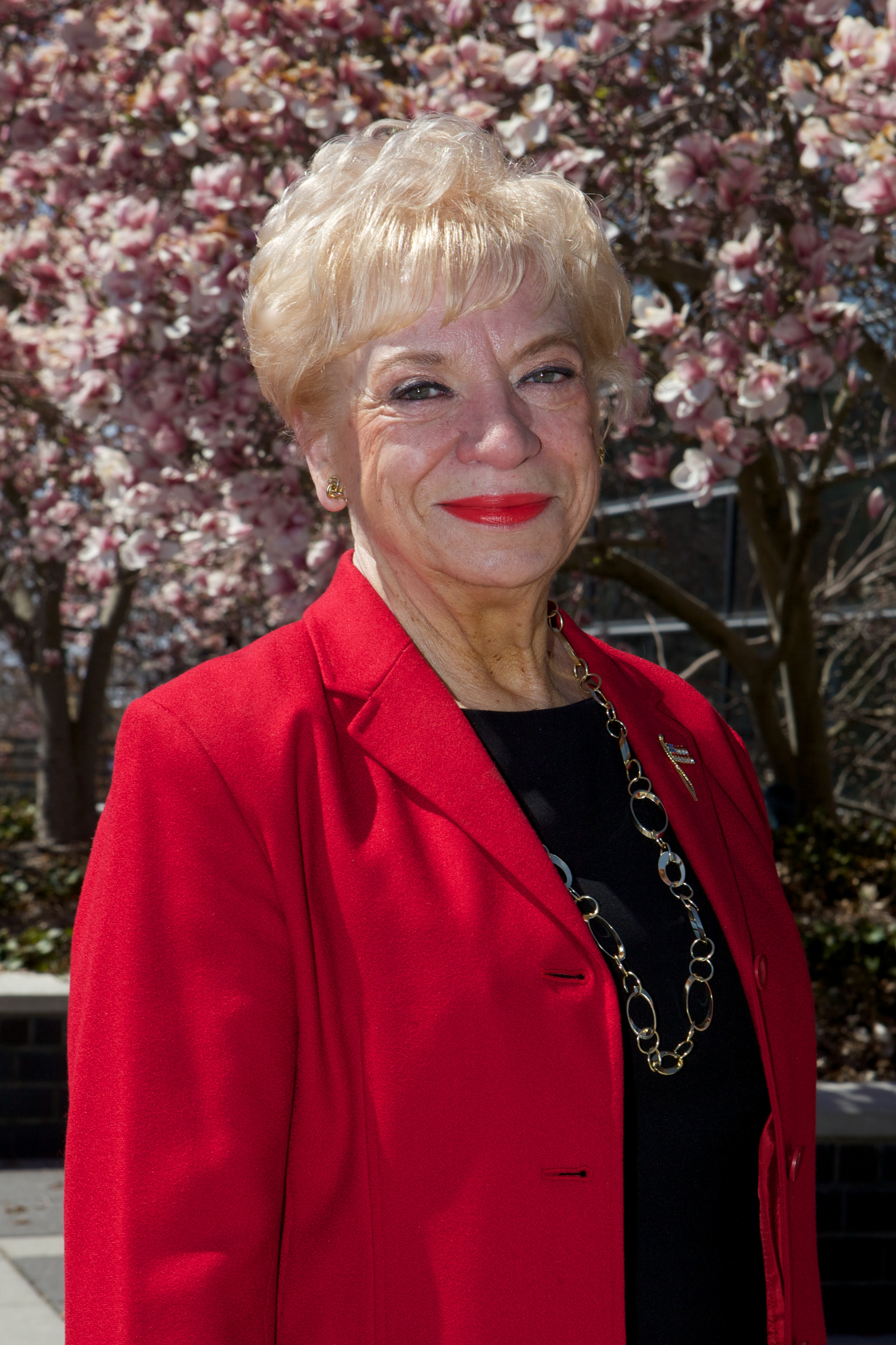 Bergen County Freeholder Joan Voss